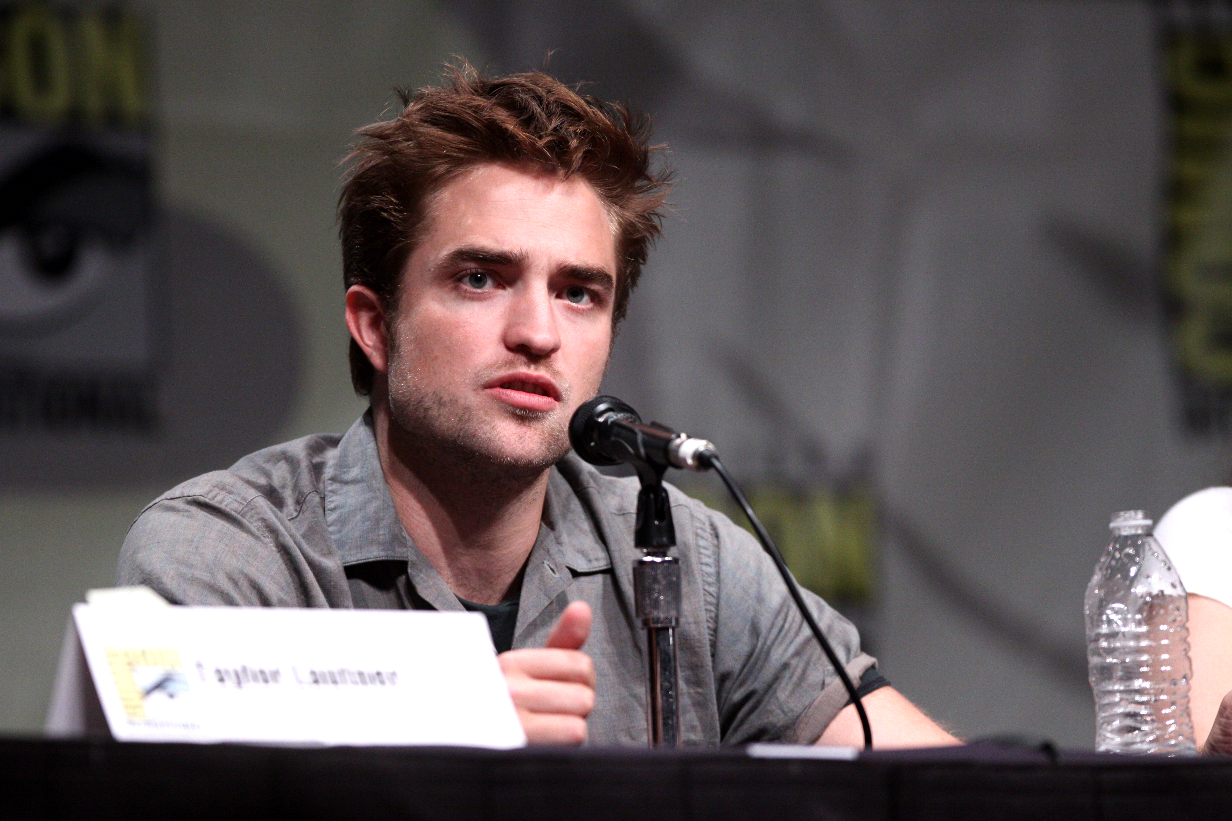 Robert Pattinson speaking at the 2012 San Diego Comic-Con International in San Diego, California.